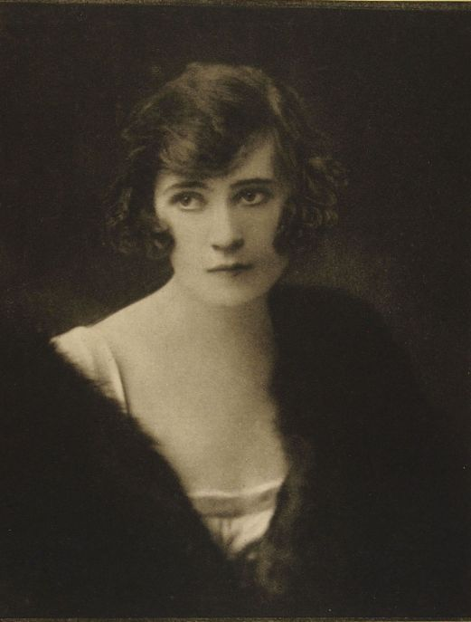 Photograph from The Book of Fair Women by E.O. Hoppé (1922)